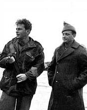 Israeli generals Yitzhak Rabin and Yigal Allon in 1949.